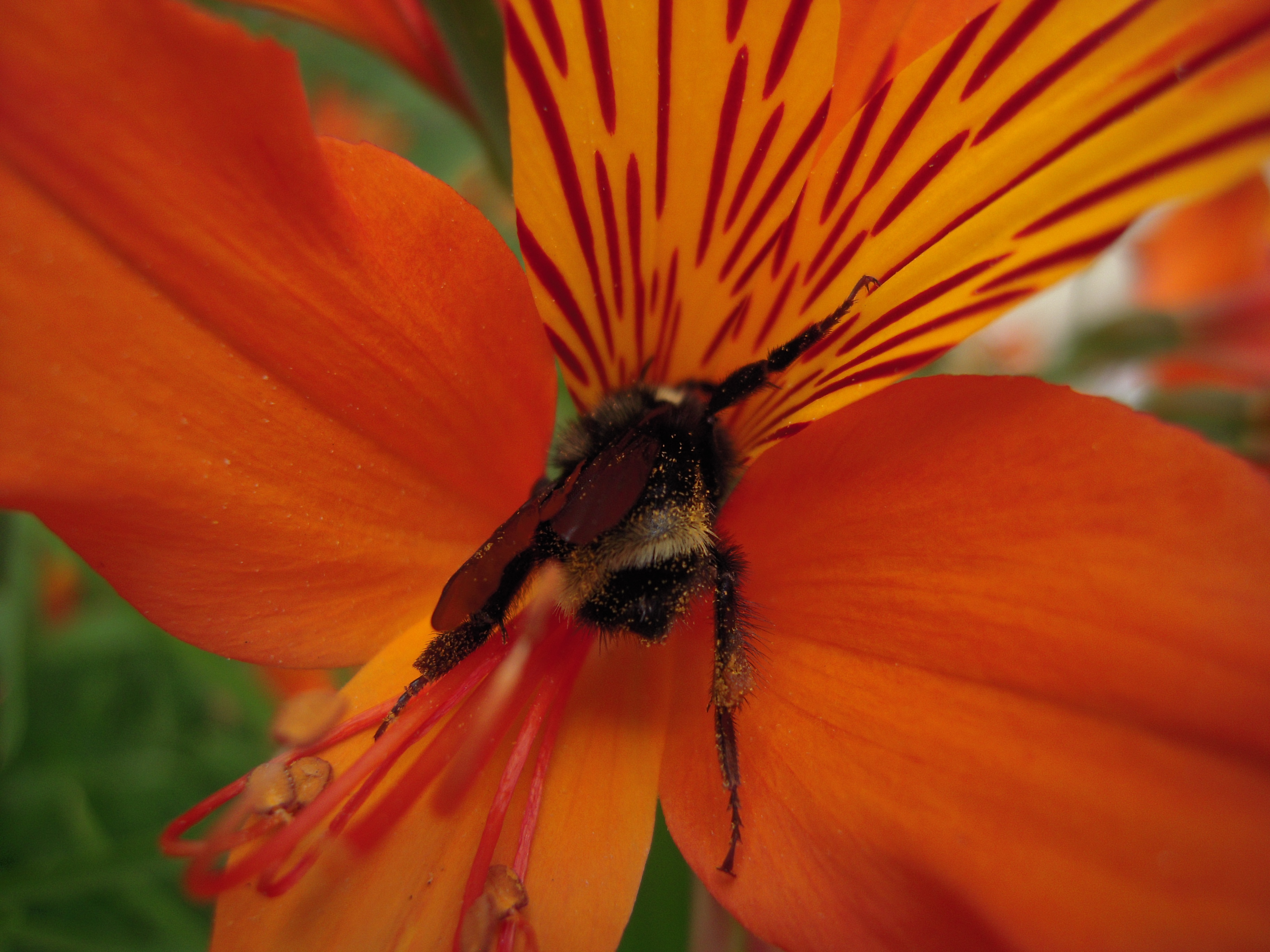 Bumblebee Bombus californicus; Peruvian lily Alstroemeria aurea.